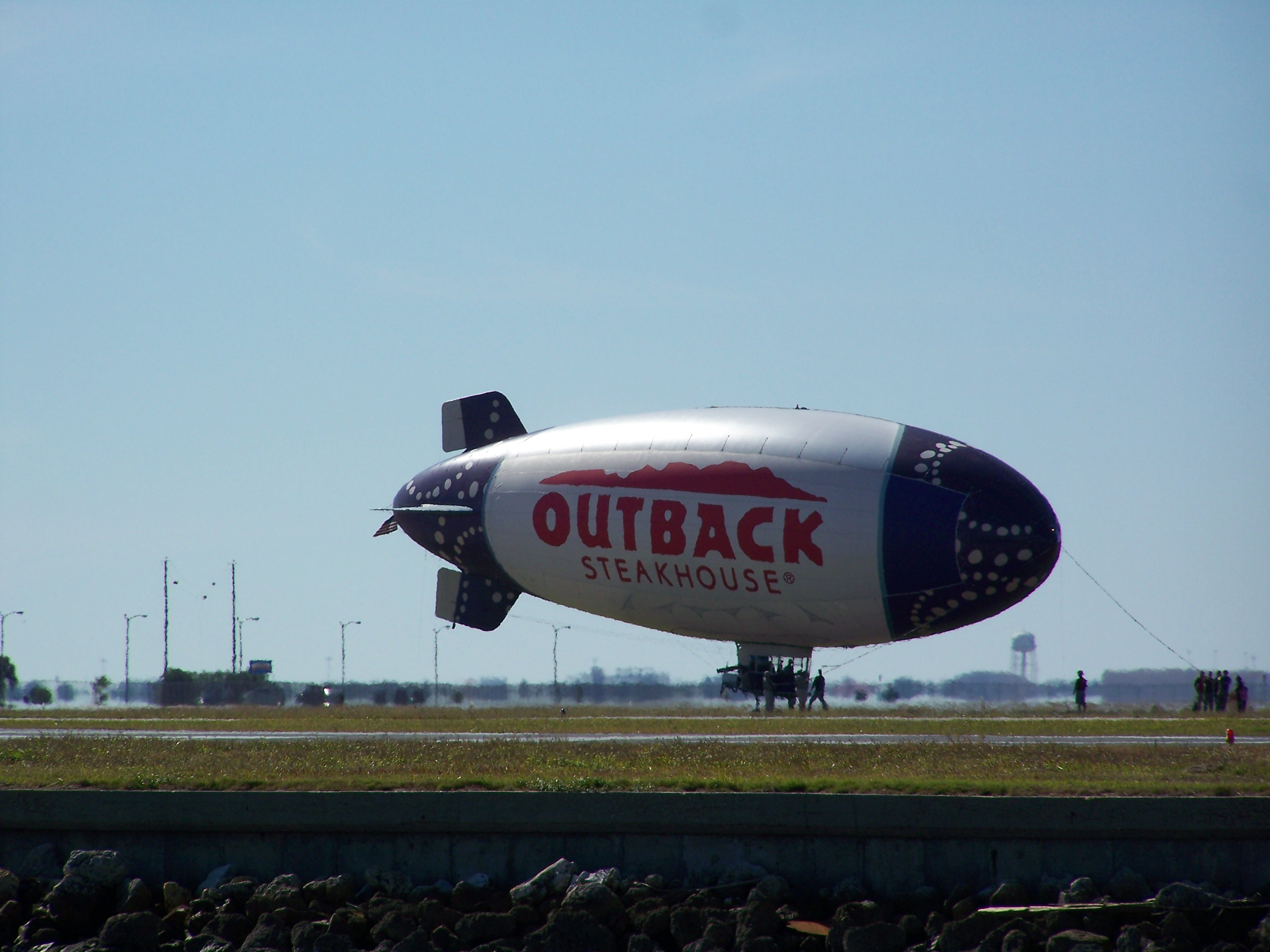 “Outback” blimp at Peter O. Knight Airport in Tampa.